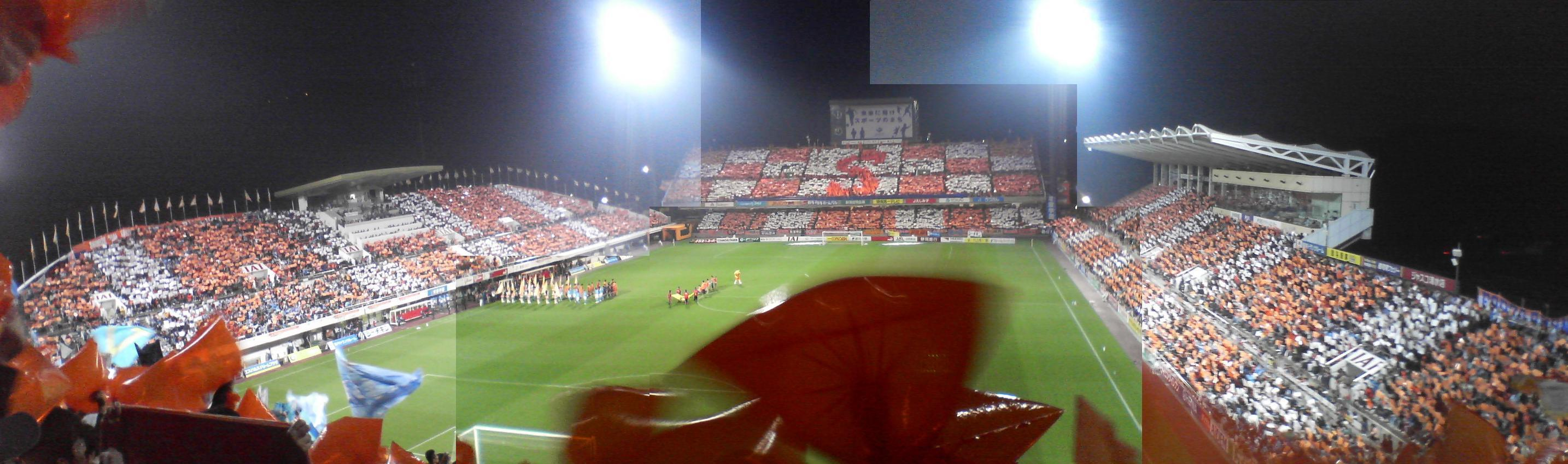 Nihondaira_Stadium_May_2007_Shizuoka_Derby_versus_Jubilo_Iwata